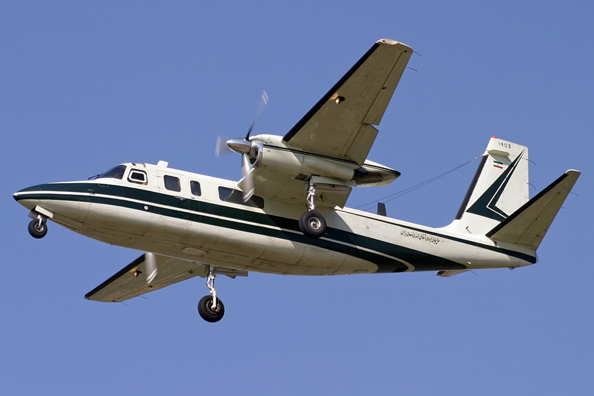 An Islamic Republic of Iran Police Aero Commander 690 fly over Tehran.